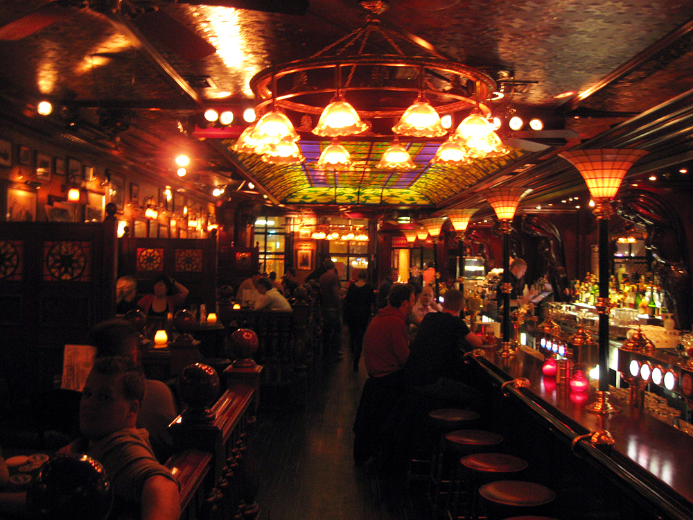 Interior of one of the areas of the Drie Gezusters bar at Grote Markt in Groningen